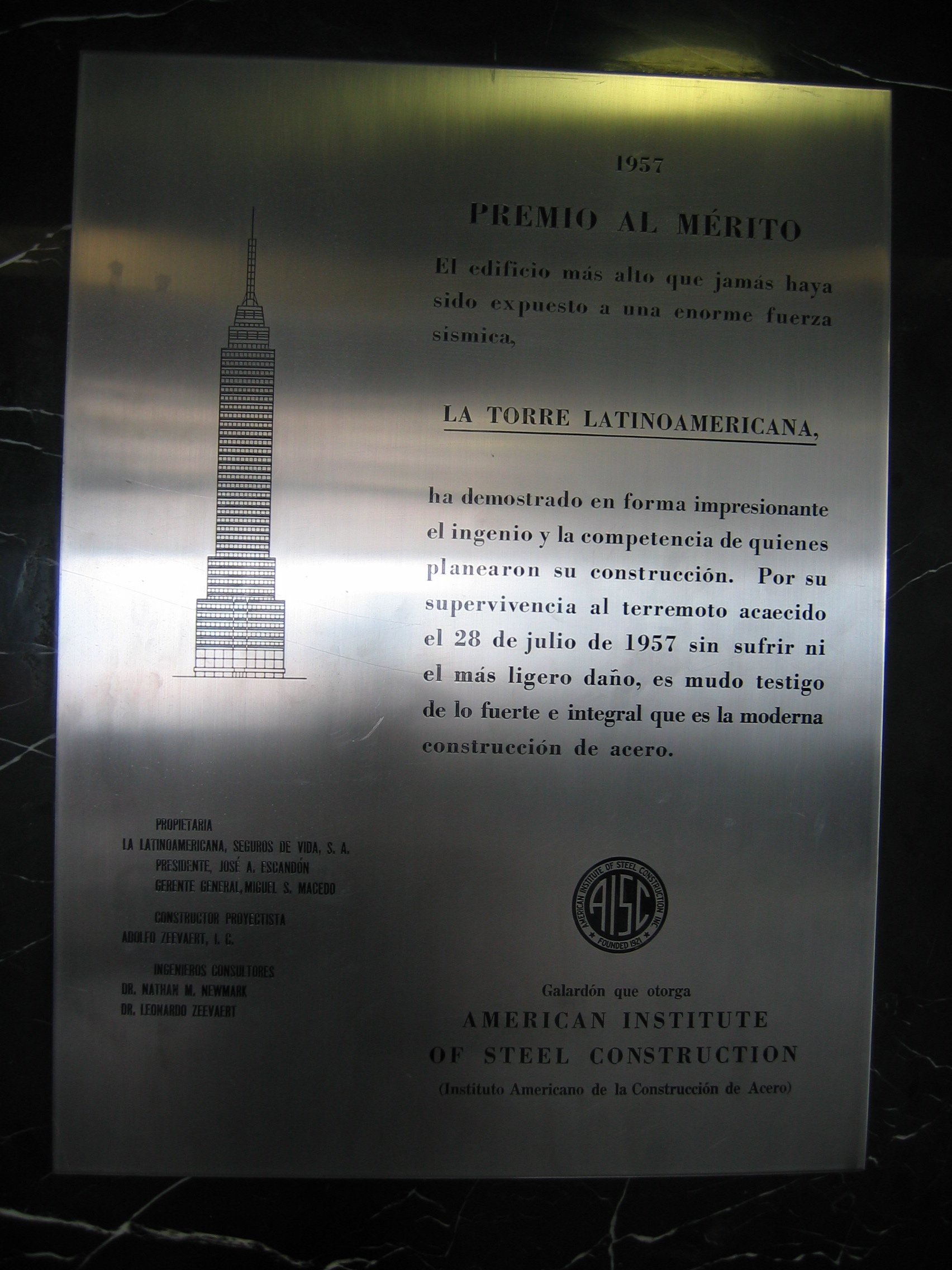 Torre Latinoamericana in Mexico City - a plaque detailing an AISC award for seismic resistance in 1957